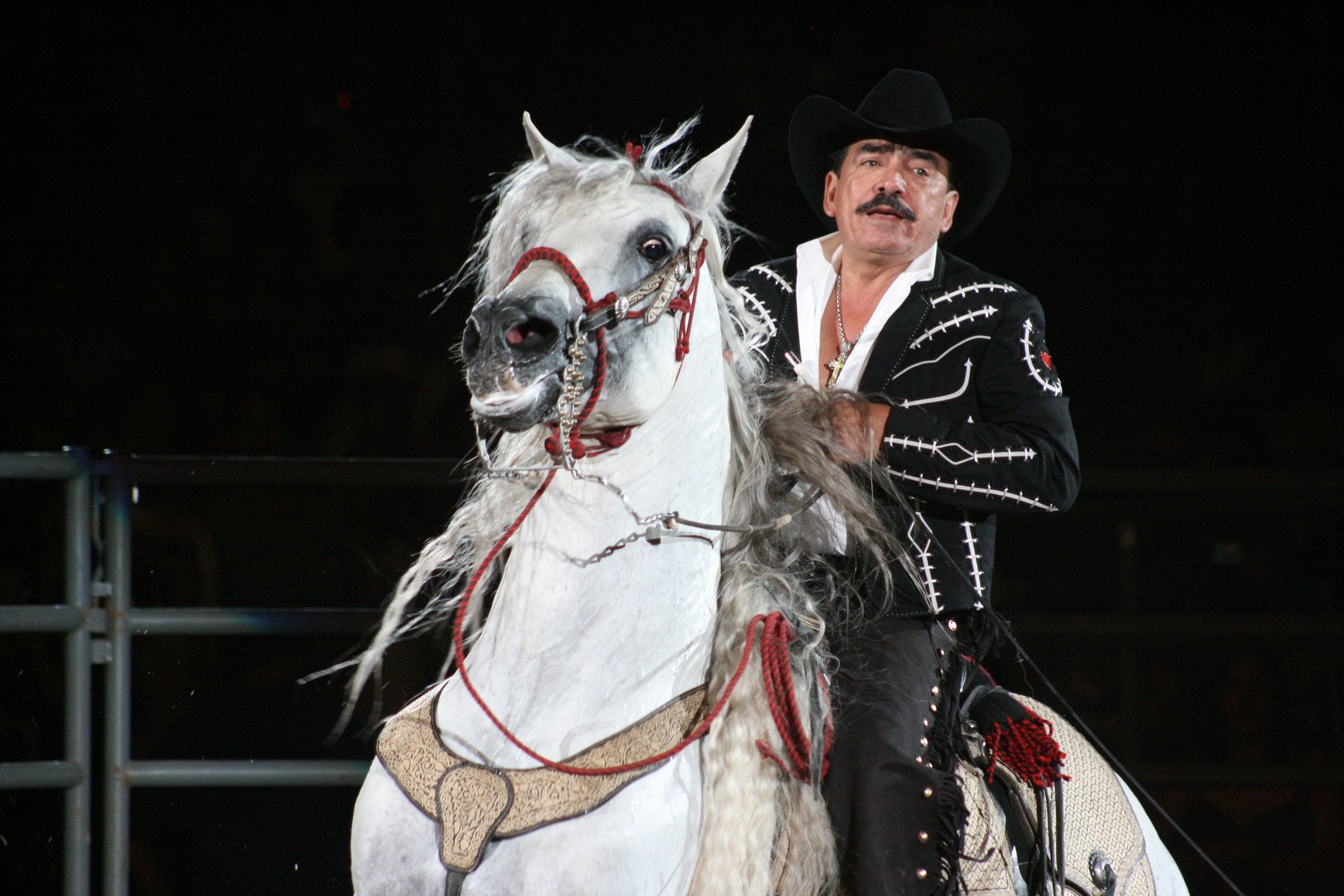 Joan Sebastian at Pepsi Center on August 22, 2009.